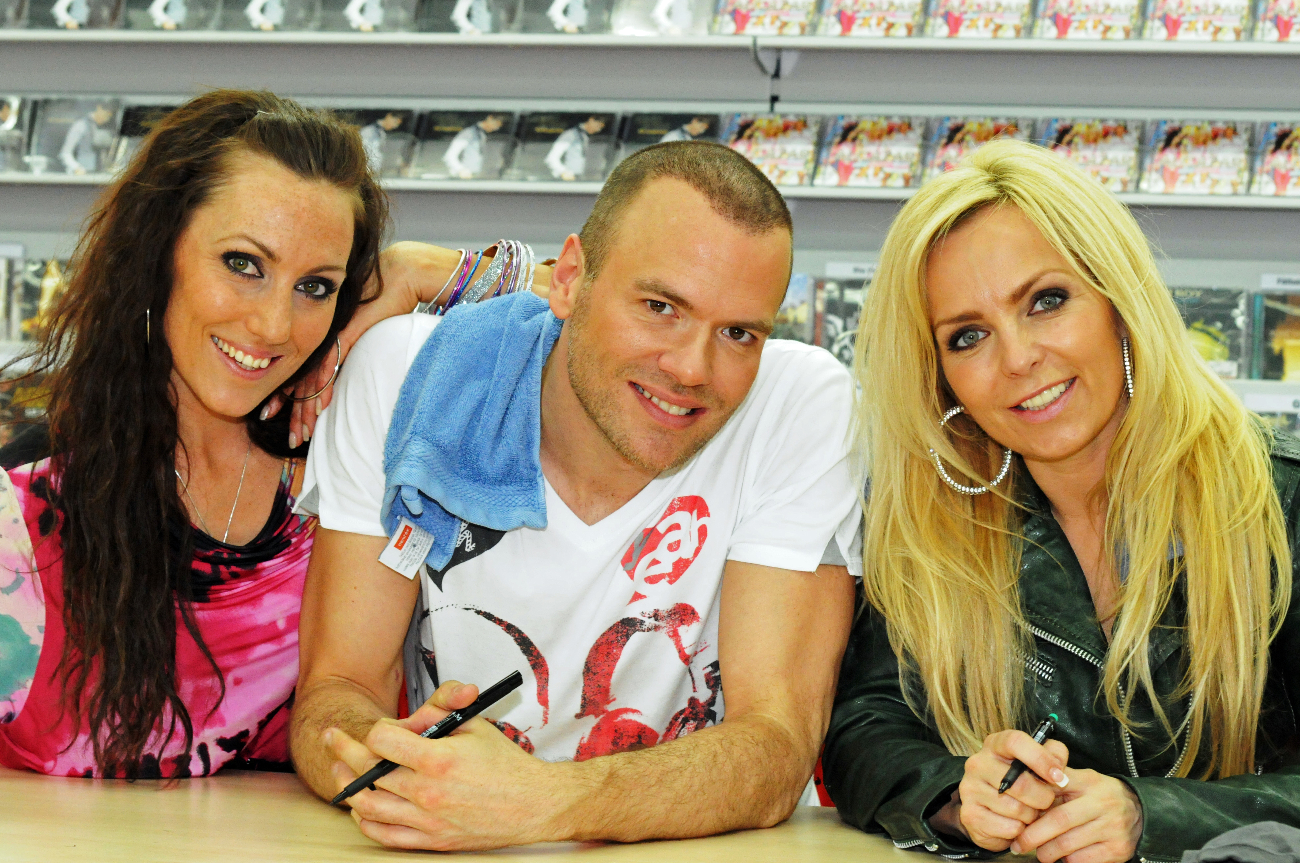 Alcazar sign albums at Media Markt in Norrköping